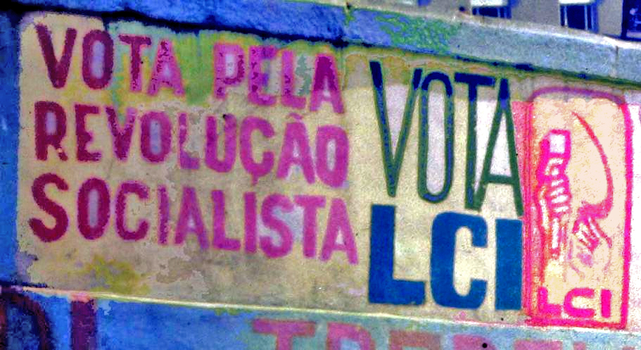 LCI By Voting Socialist Revolution